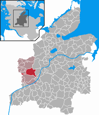 Locator maps of municipalities in Schleswig-Holstein - District Rendsburg-Eckernförde